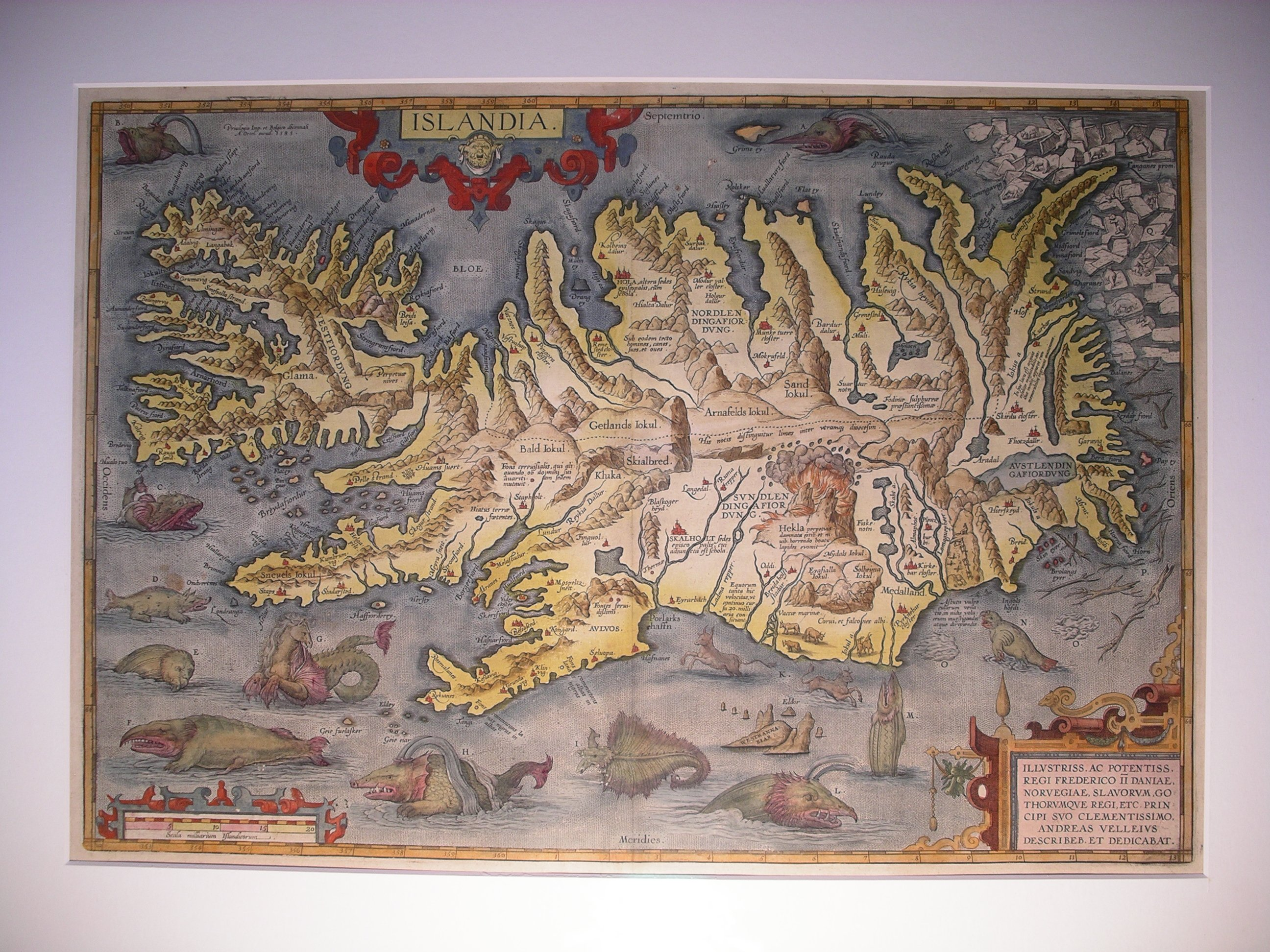 This map showing Iceland is a one of the finest maps created by the cartographer Abraham Ortelius in his legendary atlas "Theatrum Orbis Terrarum". The map was created by Ortelius in 1585 (copper engraving) and printed 4150 times in several editions. According to experts ( only about 440 examples are left. This map is from the italian edition of 1608/1612. The island of Iceland is shown at large scale and with a rather correct form. The map is very famous for the most fantastic collection of monsters to be seen on one engraving and for the erupting volcano - Mt. Hekla. Polar bears on icebergs can be seen at top right.